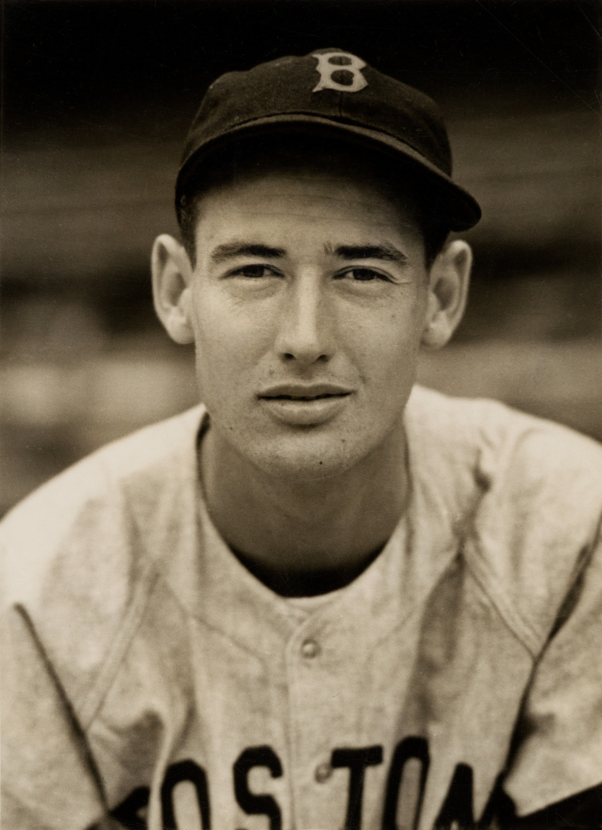 Ted Williams Original News Photograph